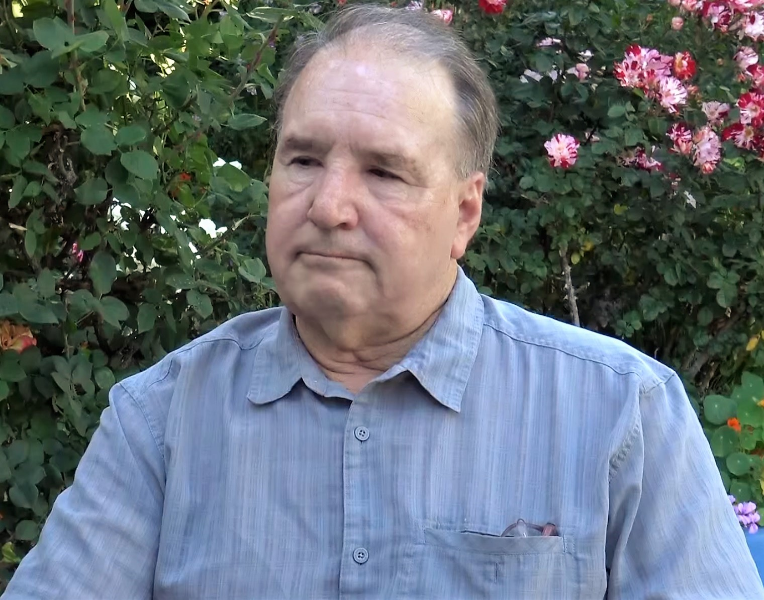 Derek Shearer on Bernie Sanders and millennials Derek Shearer is Chevalier Professor of Diplomacy and World Affairs at Occidental College in Los Angeles, and serves as Director of the McKinnon Center for Global Affairs.